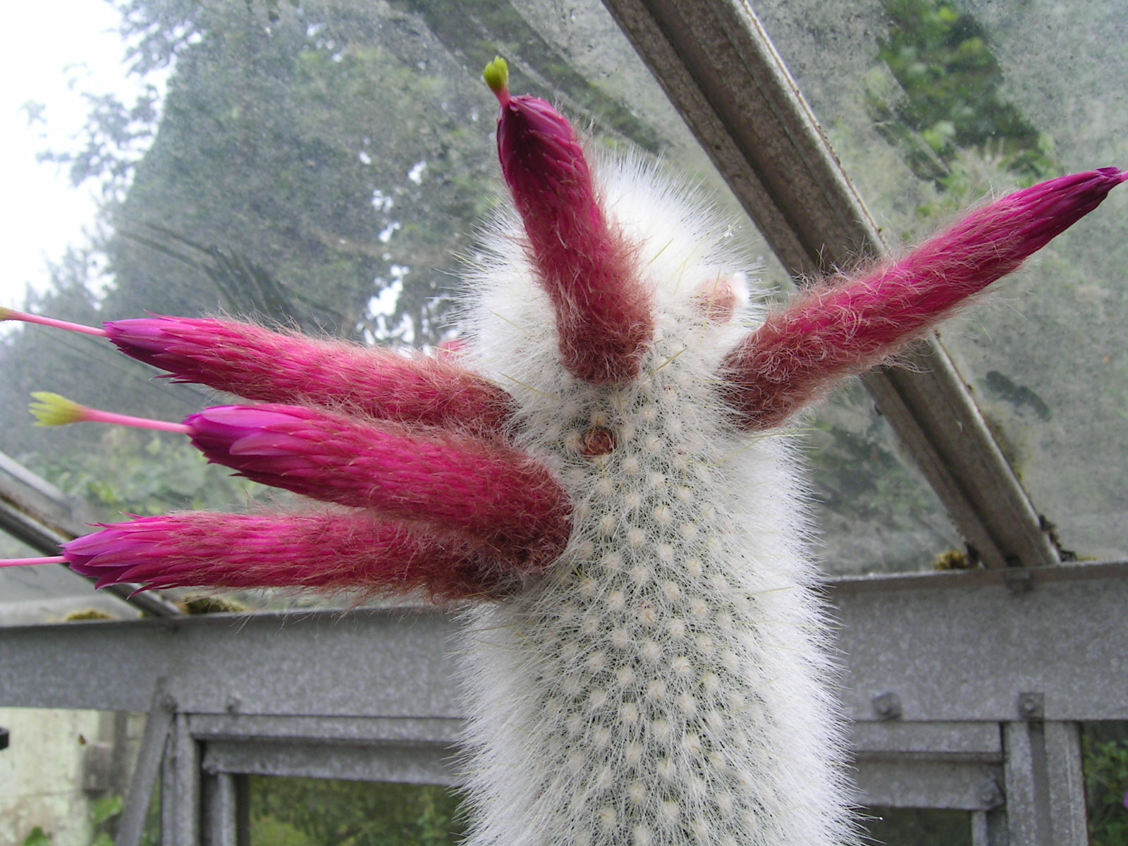 Silver torch cactus (Cleistocactus strausii)